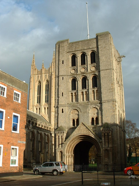 Norman Tower, near to Bury st Edmunds, Suffolk, Great Britain. Norman tower and St.Edmunds cathedral to the left Bury St.Edmunds Suffolk.